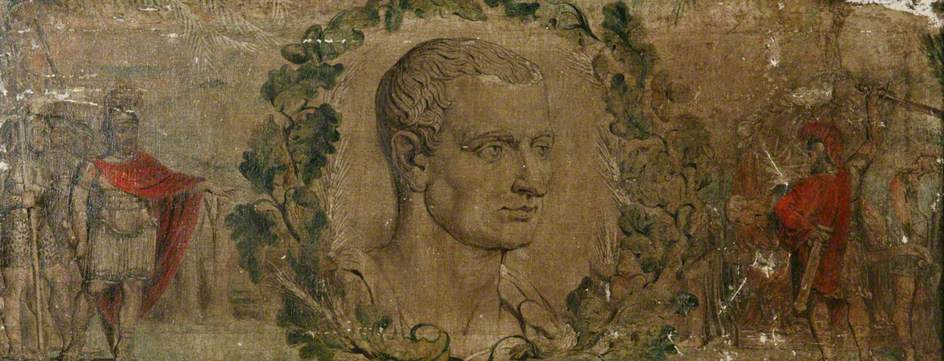 William Blake - Marcus Tullius Cicero - Manchester City Gallery - Tempera on canvas c 1800